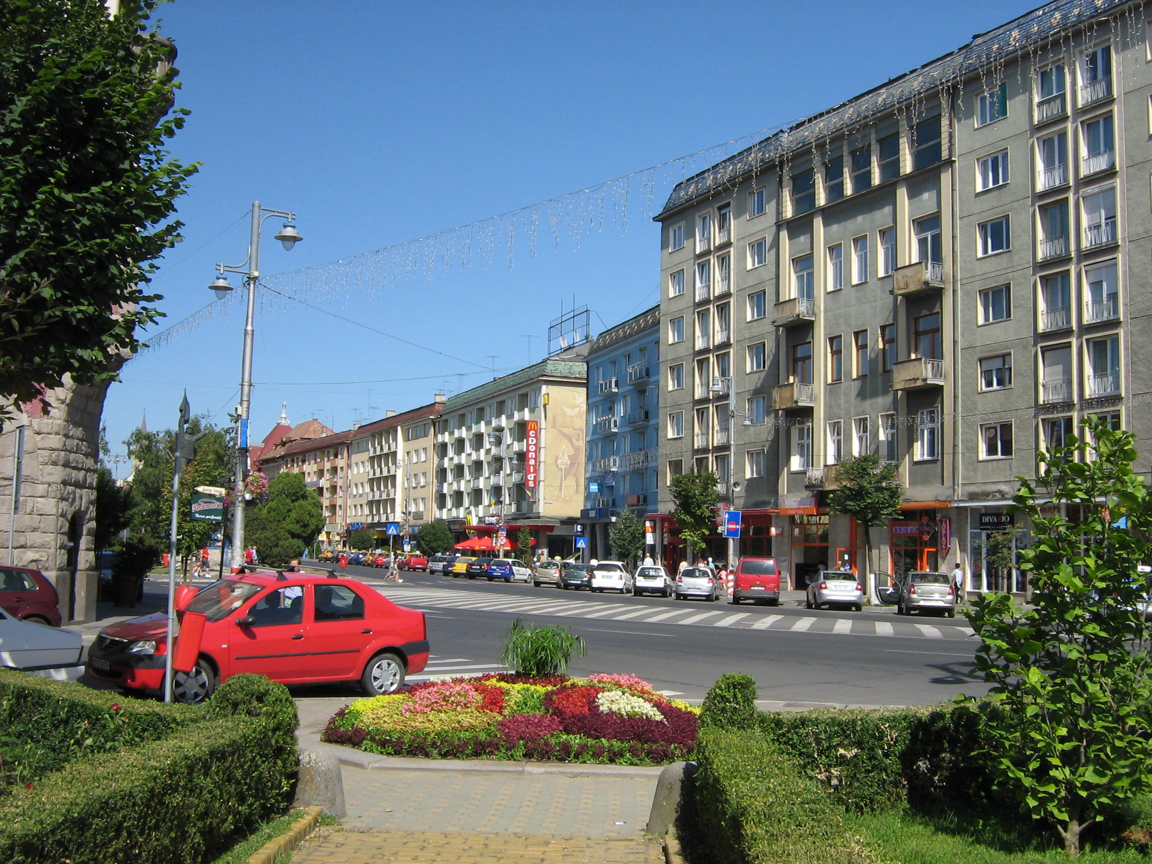 City centre of Targu Mures